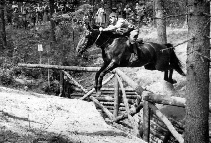 Hans Christian Andersen and Tom at the 1952 Summer Olympics in Helsinki.